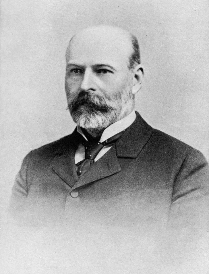 Portrait of John Casper Branner (1850-1922)